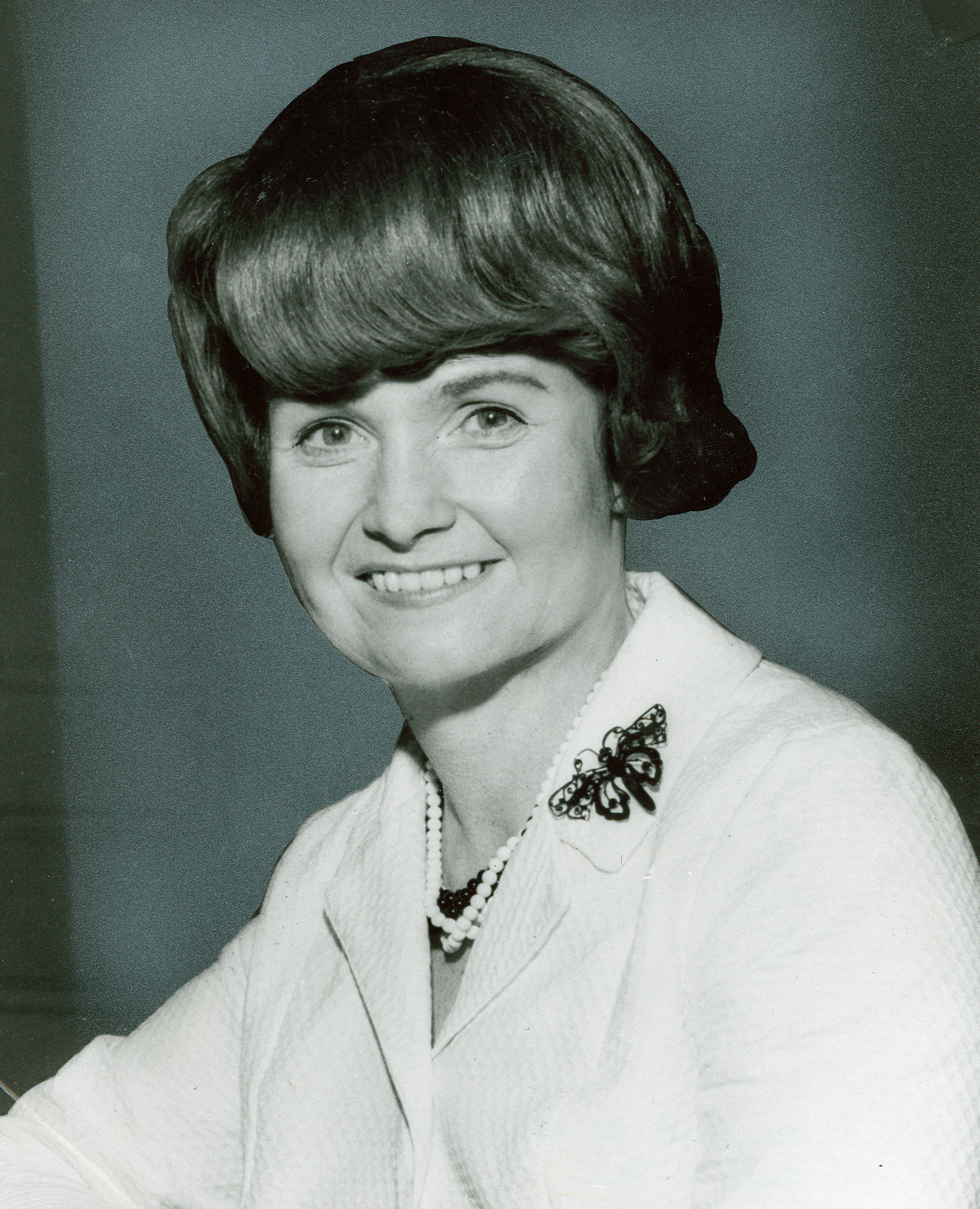 U.S. Social Security Administration